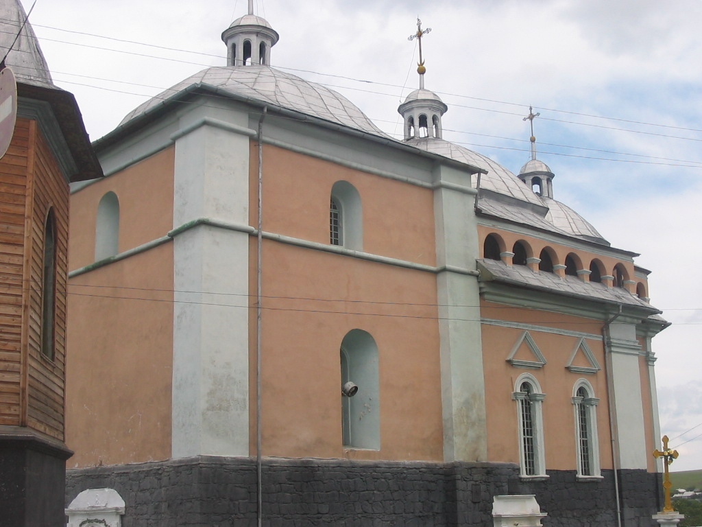 Ukrainian Orthodox church in Pidhaytsi, western Ukraine